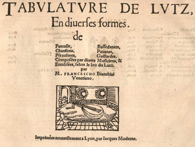 Title page of F Bianchini's lute tablature (Lyon, c. 1547)